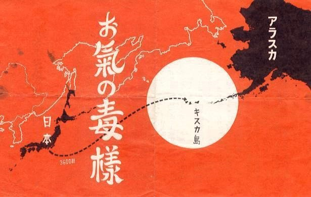 This propaganda leaflet was dropped to Japanese military in the Kiska by US Armed Forces.